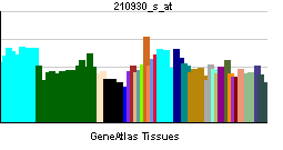 Gene expression pattern of the ERBB2 gene.